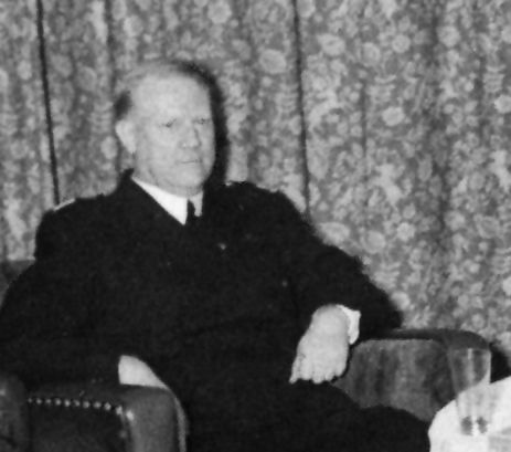 Norwegian Minister-President Vidkun Quisling in the Norwegian capital Oslo